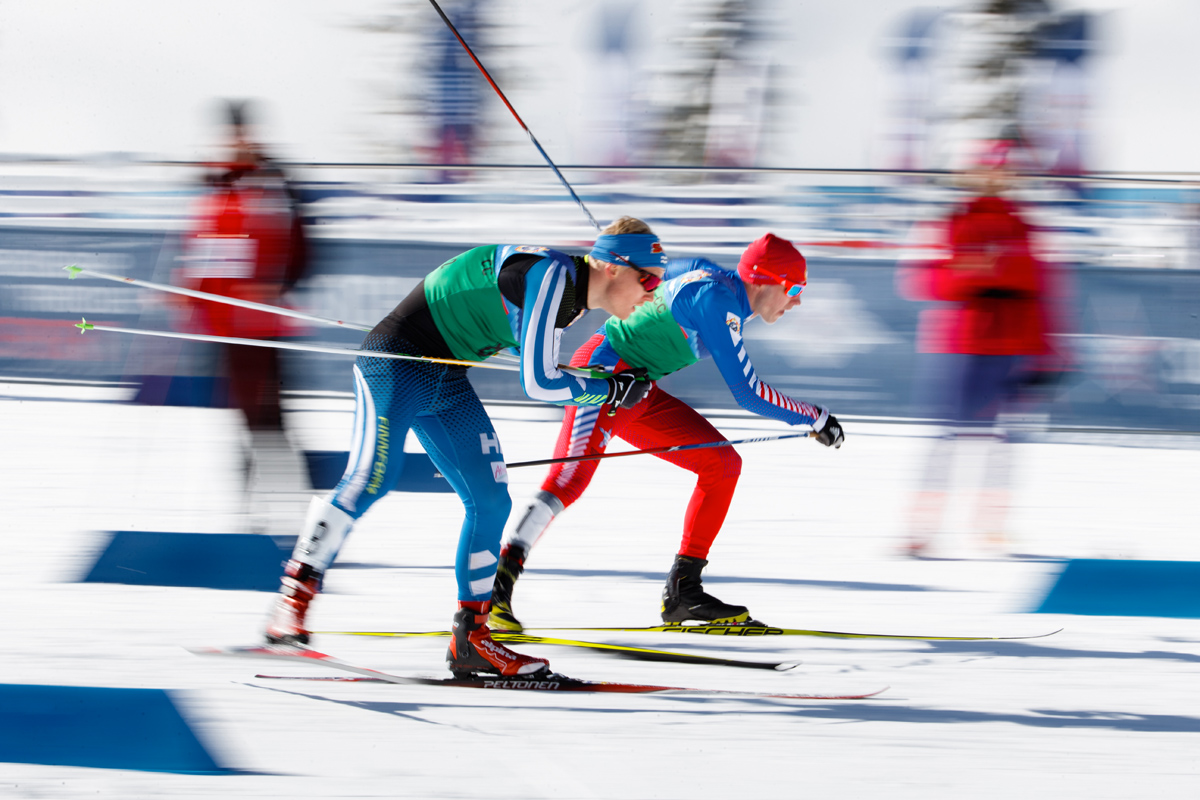 Cross-country skiing at the 2017 Winter Military World Games